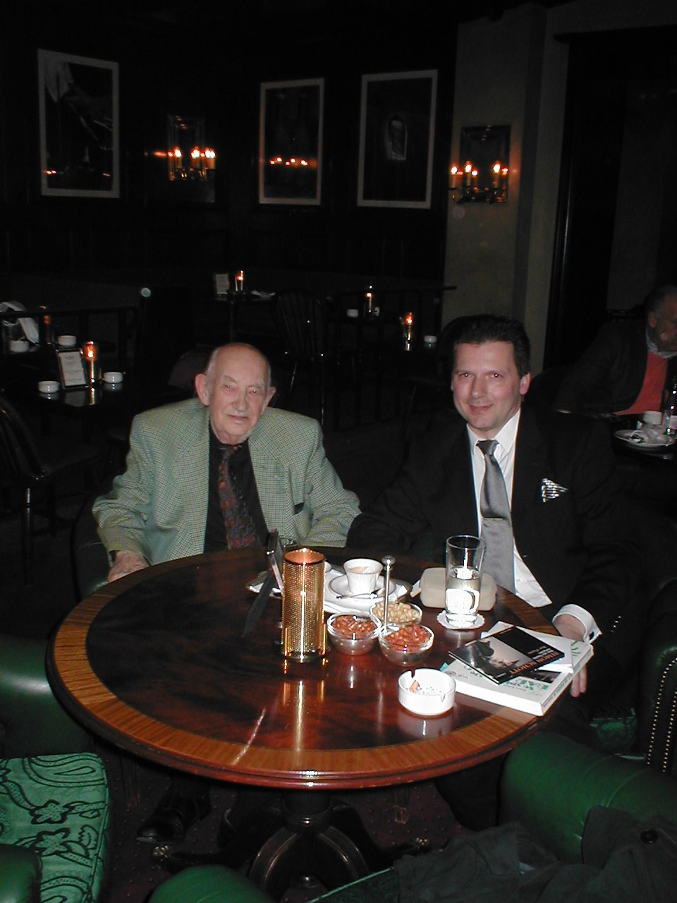 Simon Schott 2007 im Gespräch mit Reinhard Wallner in der Bar des Hotels Kempinski, München.